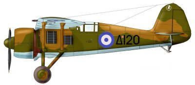 PZL P.24 fighter of Greece. Removed author's signature from image: "I Mansolas".